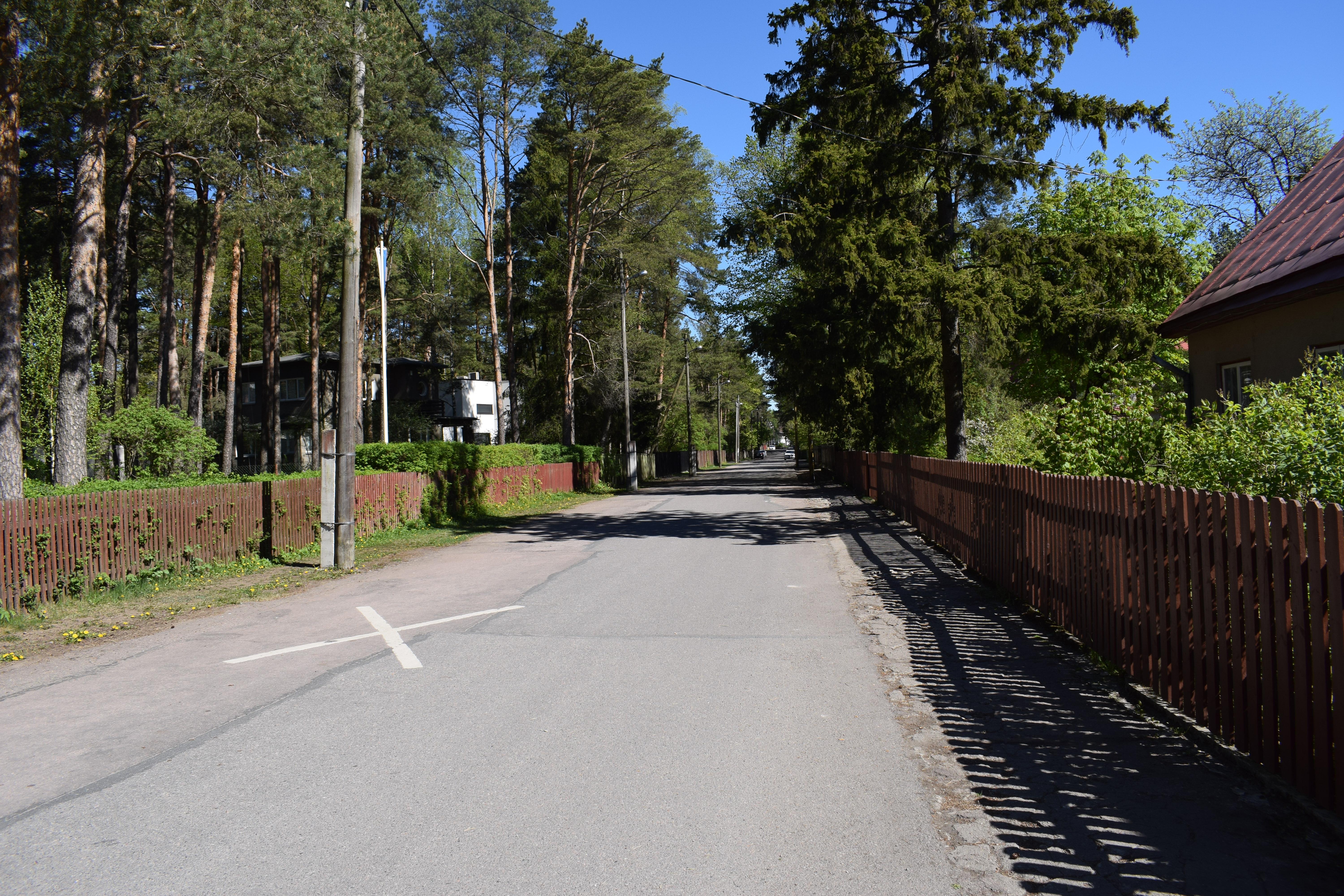 Kaevu street